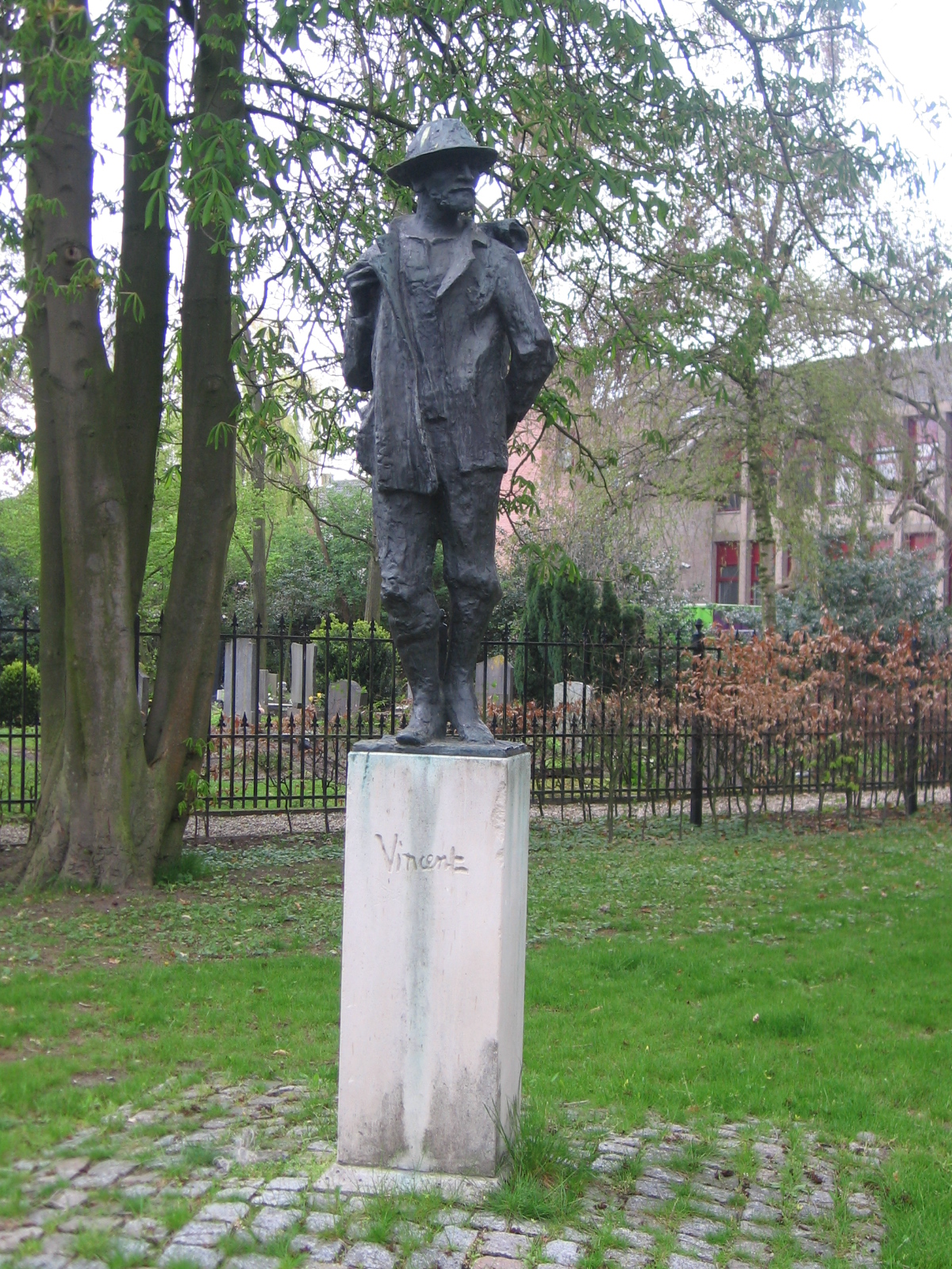 Etten-Leur, statue of Vincent van Gogh by Hein Vree in 1990.